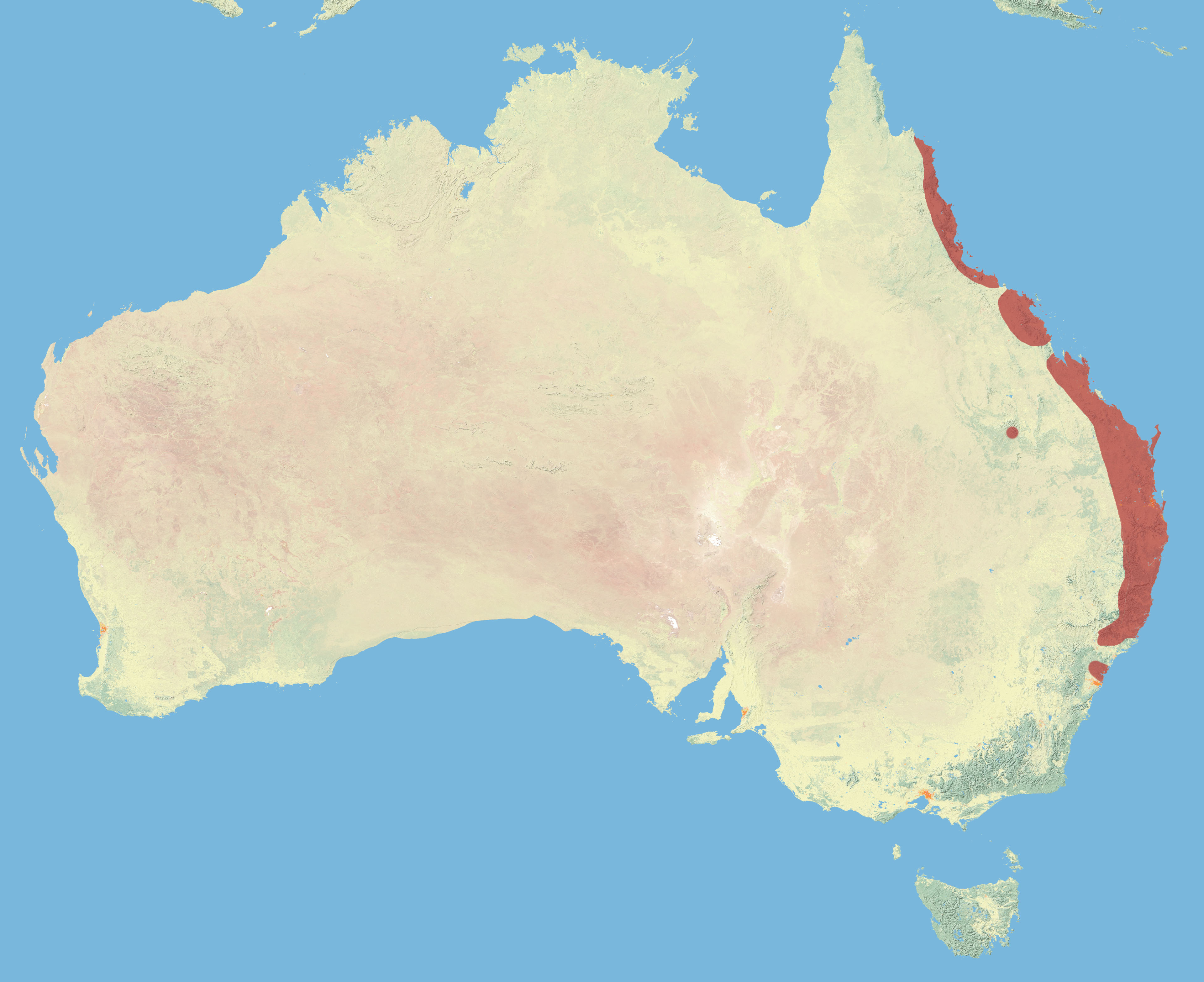 The Distribution of the Fawn-footed Melomys According to the IUCN